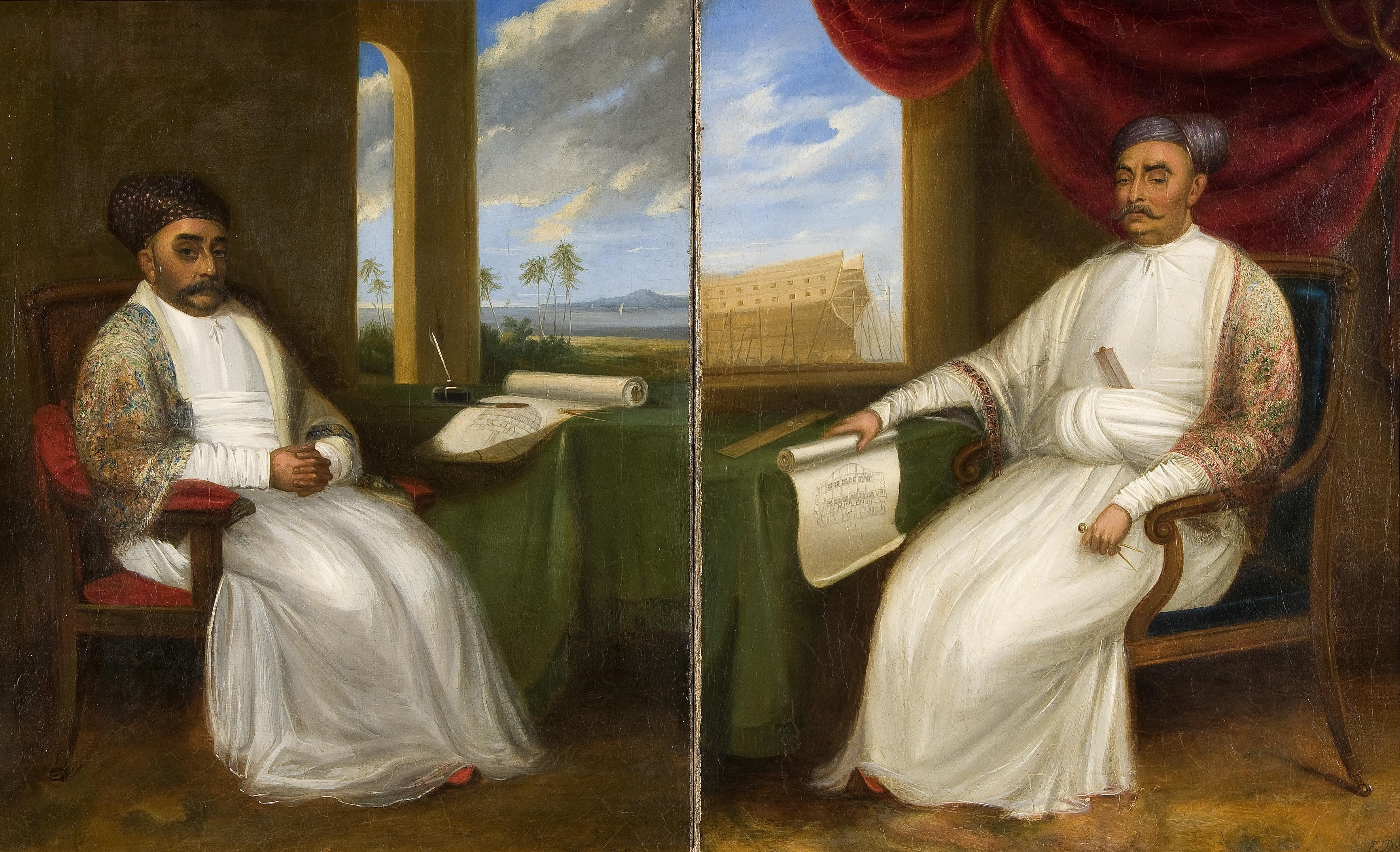 Jamsetjee Bomanjee (1756-1821) and Nourojee Jamsetjee (1774-1860), Parsi master shipbuilders. Ca. 1830. By an unidentified artist, J. Dorman (?), possibly a relation of J.J. Dorman who exhibited two oil paintings at the Royal Academy in 1855 and 1857. Oil on canvas. Presented by Sir Charles Forbes, 2 July 1836. The two portraits each measure 42 x 36 cm. RAS 01.007-01.008 Royal Asiatic Society of Great Britain In the portrait the sitters wear embroidered pashmina shawls, it was customary for the ship-builders to be given shawls by the representatives of the East India Company at the launching of a new ship. Both men were of the famous Lowjee family of Parsi shipbuilders active in Bombay from the early 19th century.